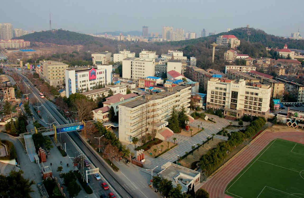 Panoramic view of the east part of The High School Affiliated to Anhui Normal University